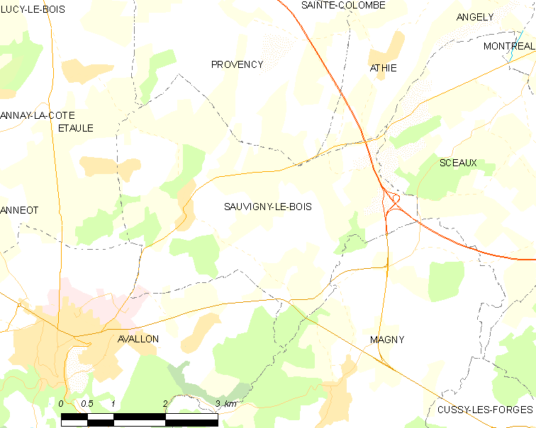 Map of French municipality Sauvigny-le-Bois